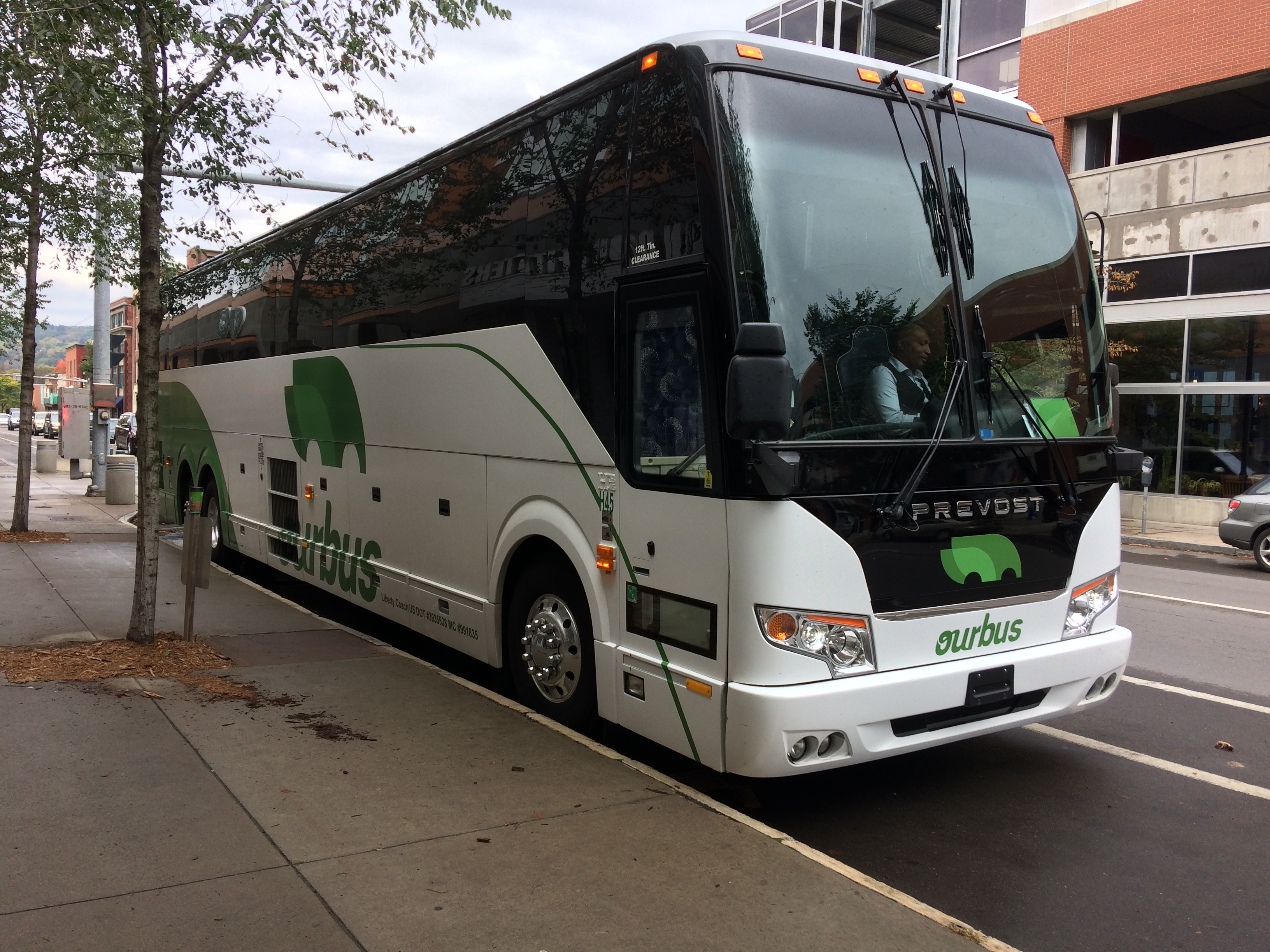 OurBus makes a stop in Ithaca, NY to transport passengers to New York City.